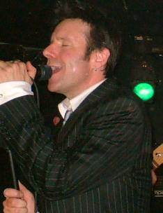 Photo of Hugh Dillon taken May 02, 2005 in London at Call the Office